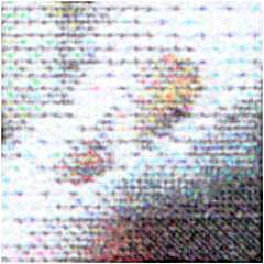 Close-up of dots produced by an ink-jet printer. Photo taken, printed and scanned by Wapcaplet.